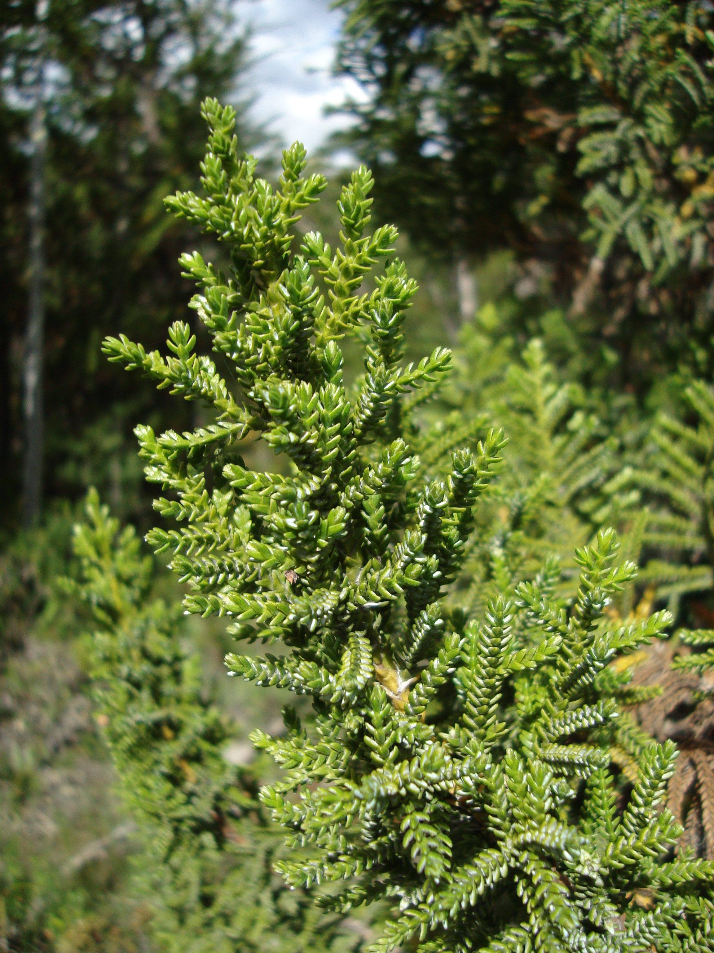 Pilgerodendron uviferum between Cochrane and Tortel on the carretera austral, Aisén Region, southern Chile